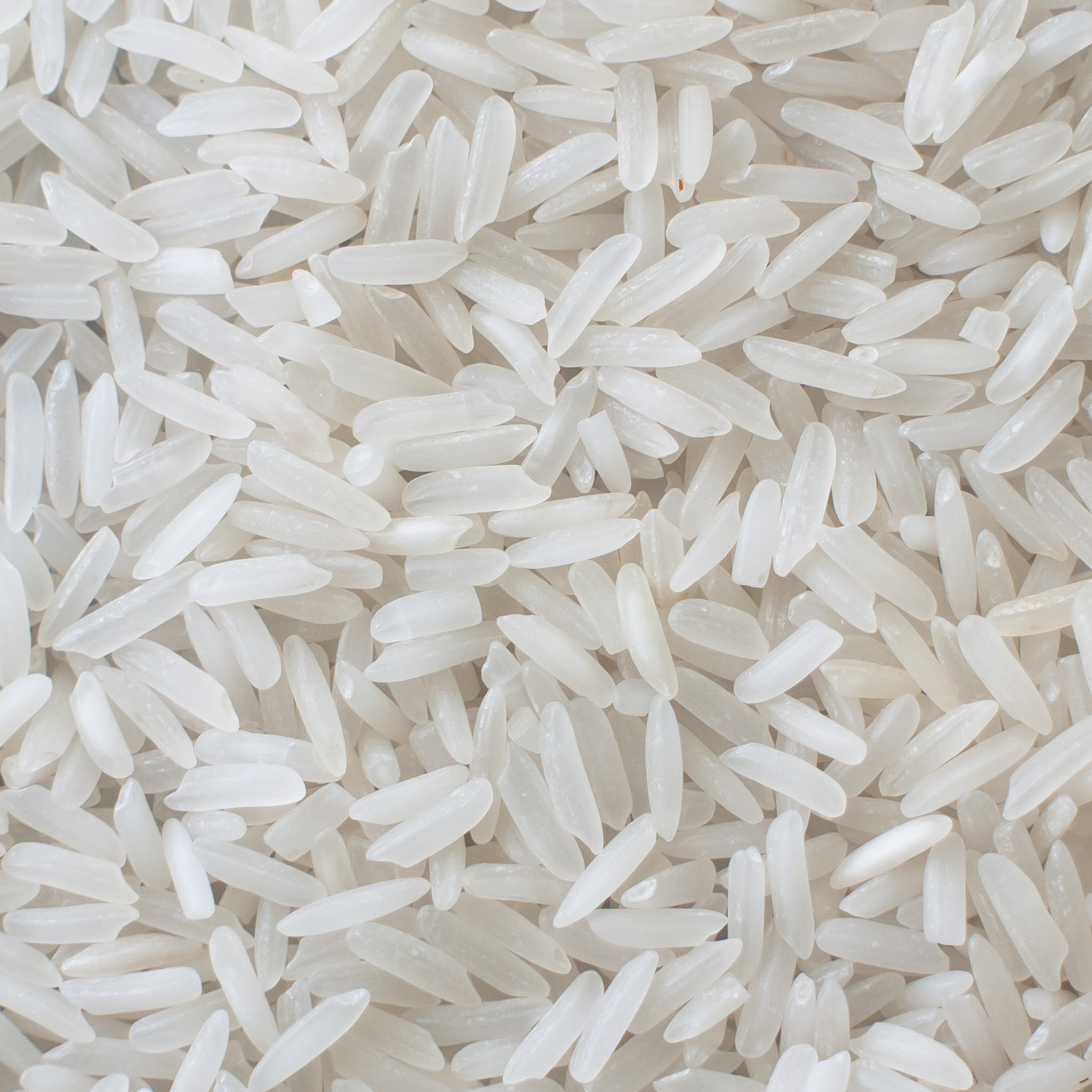 A close up of uncooked, polished Thai jasmine rice.